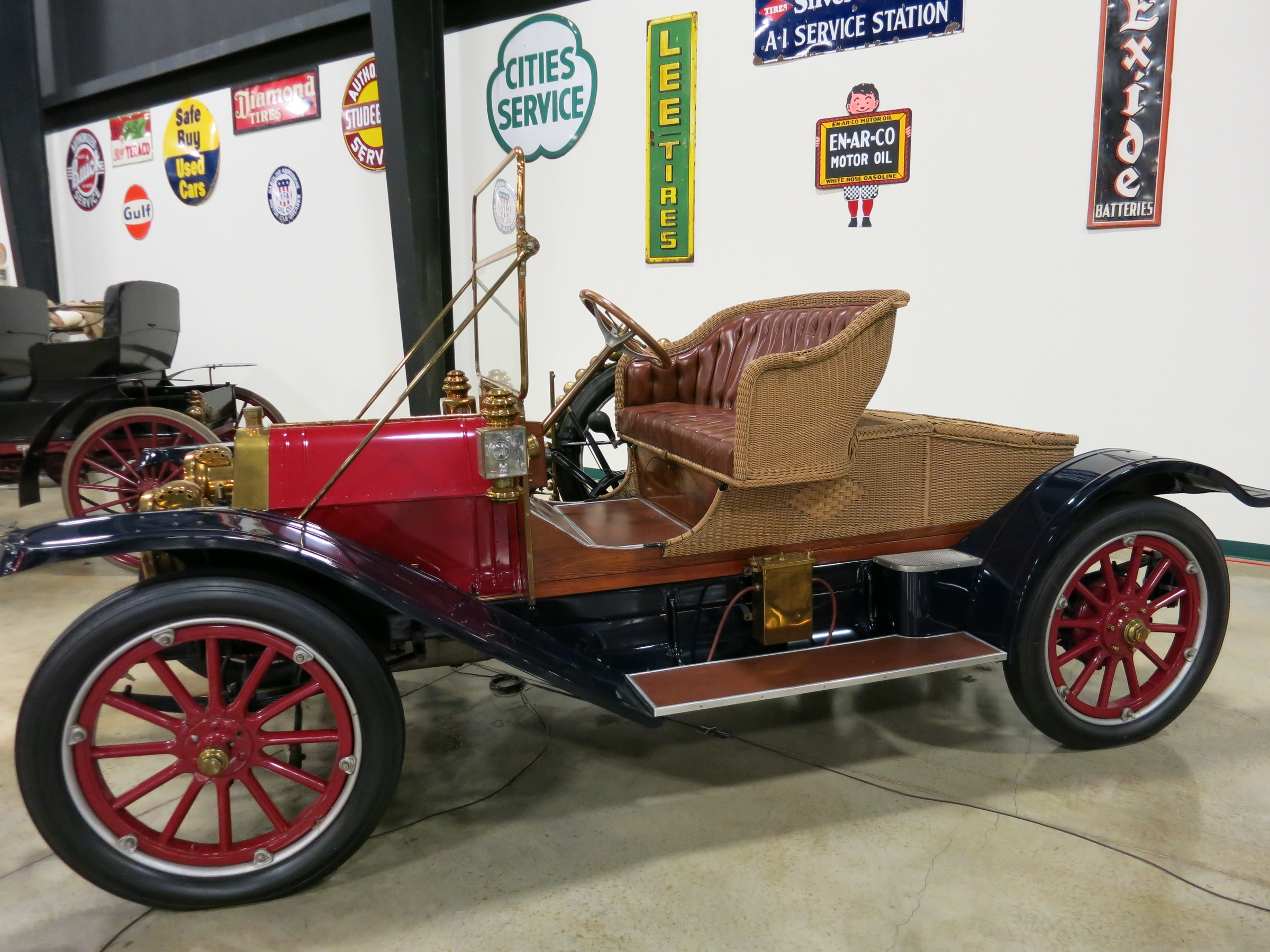 1910 Haynes Model 19 Tupelo Automobile Museum Tupelo, Mississippi